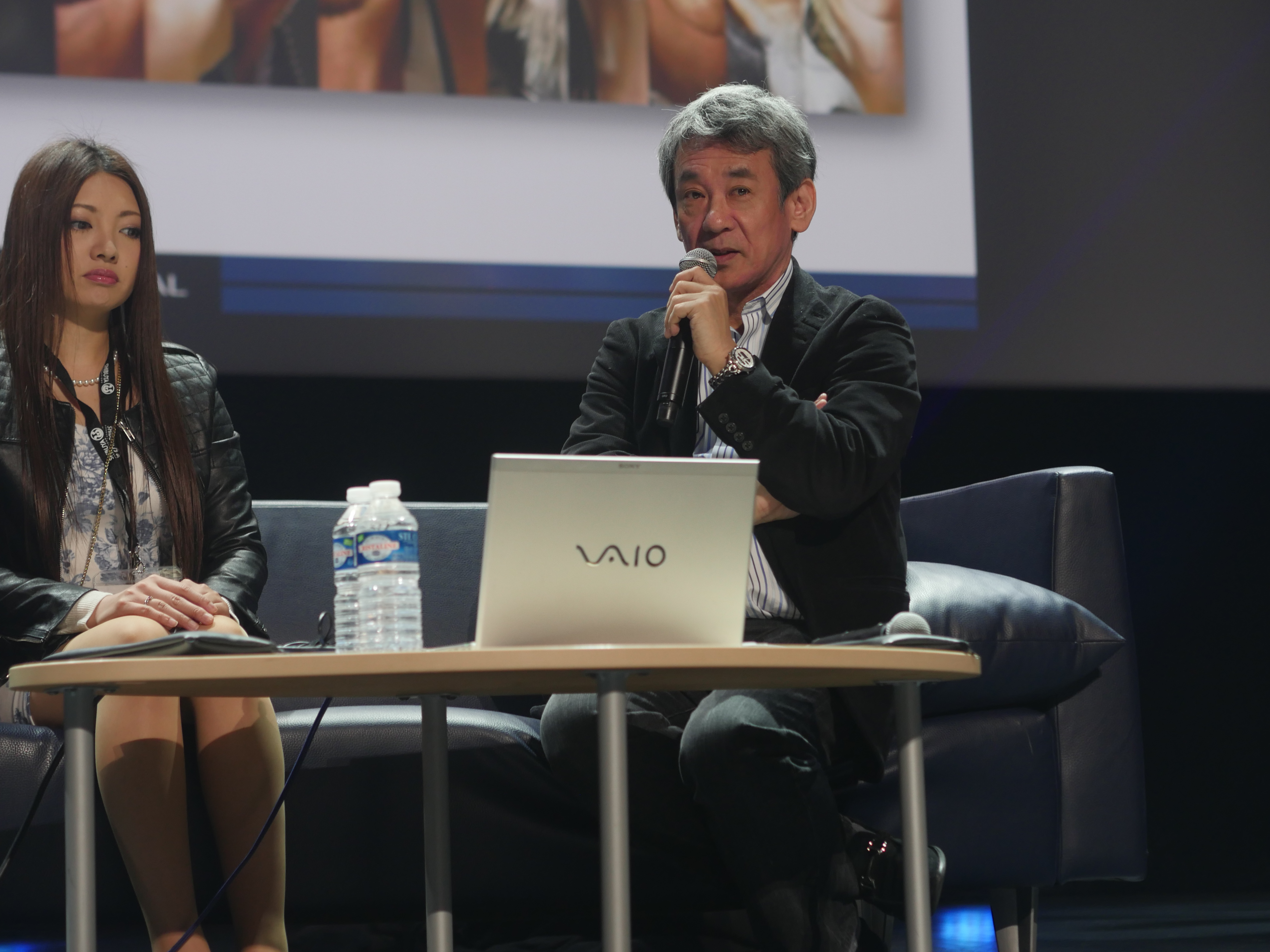 photograph taken at the 2015 edition of the "Monaco Anime Game International Conferences" (MAGIC) organized by Shibuya International in Monaco.